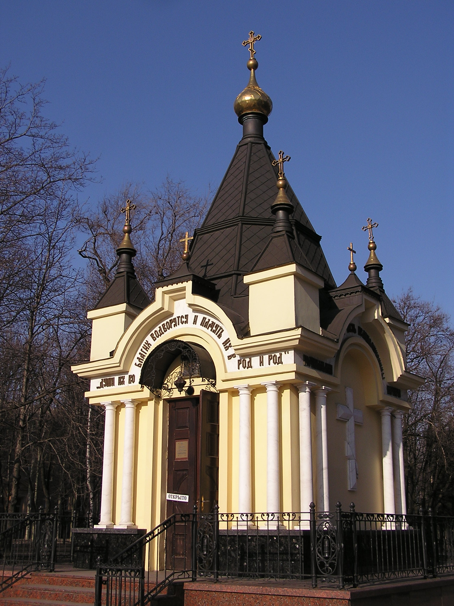 Chapel of Saint Barbara in Donetsk